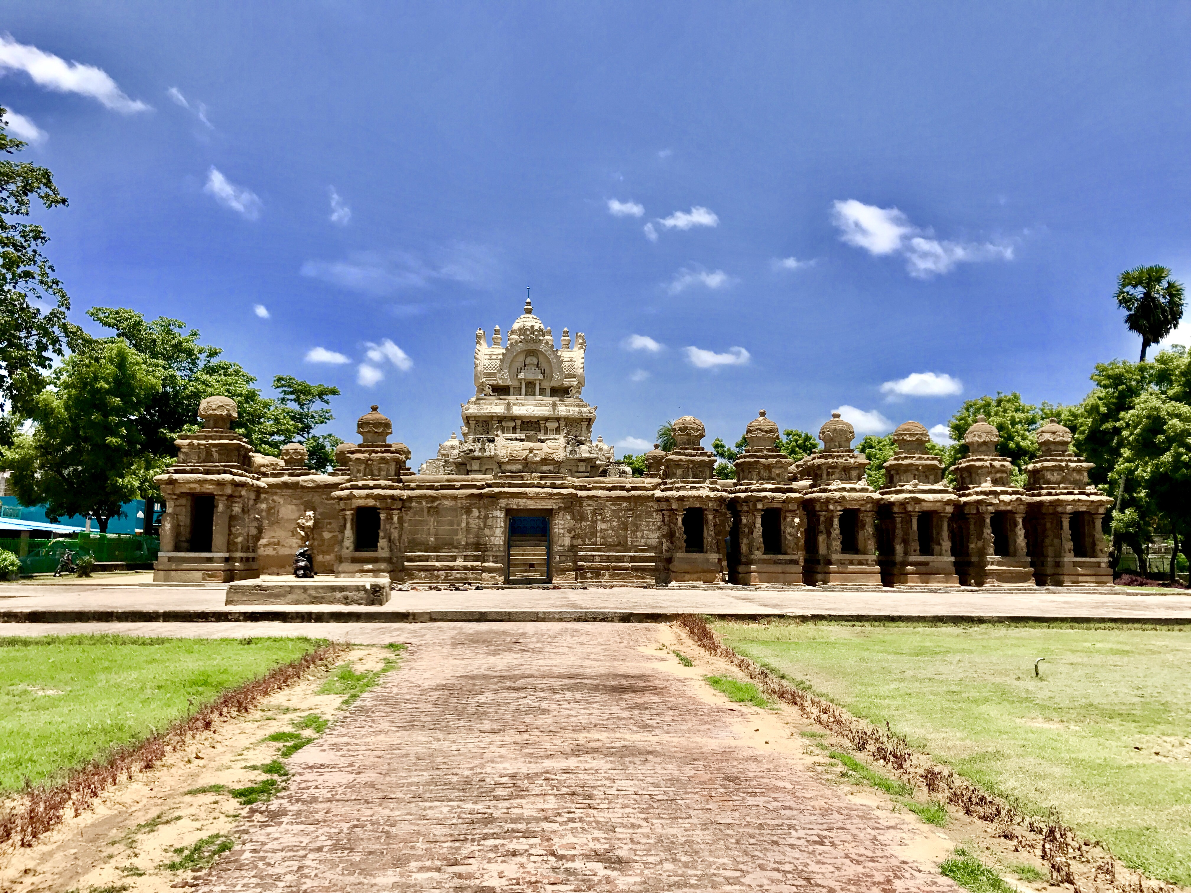 Kanchi Kailasanathar Temple